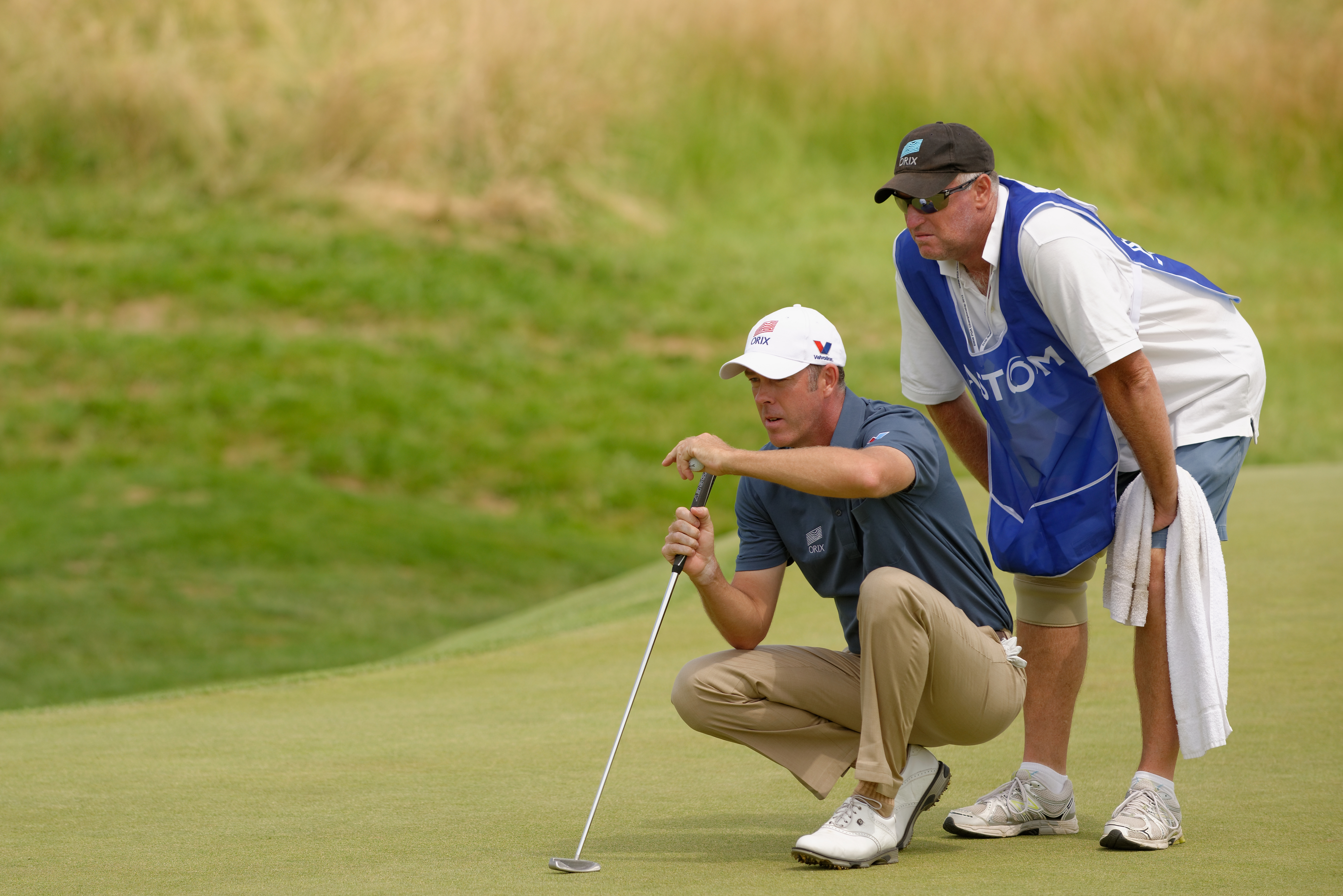 Australia's Richard Green and his caddie read the 9th-hole green during round 3 of the French Golf Open at the Golf National in Saint Quentin en Yvelines, Saturday July 6th 2013.